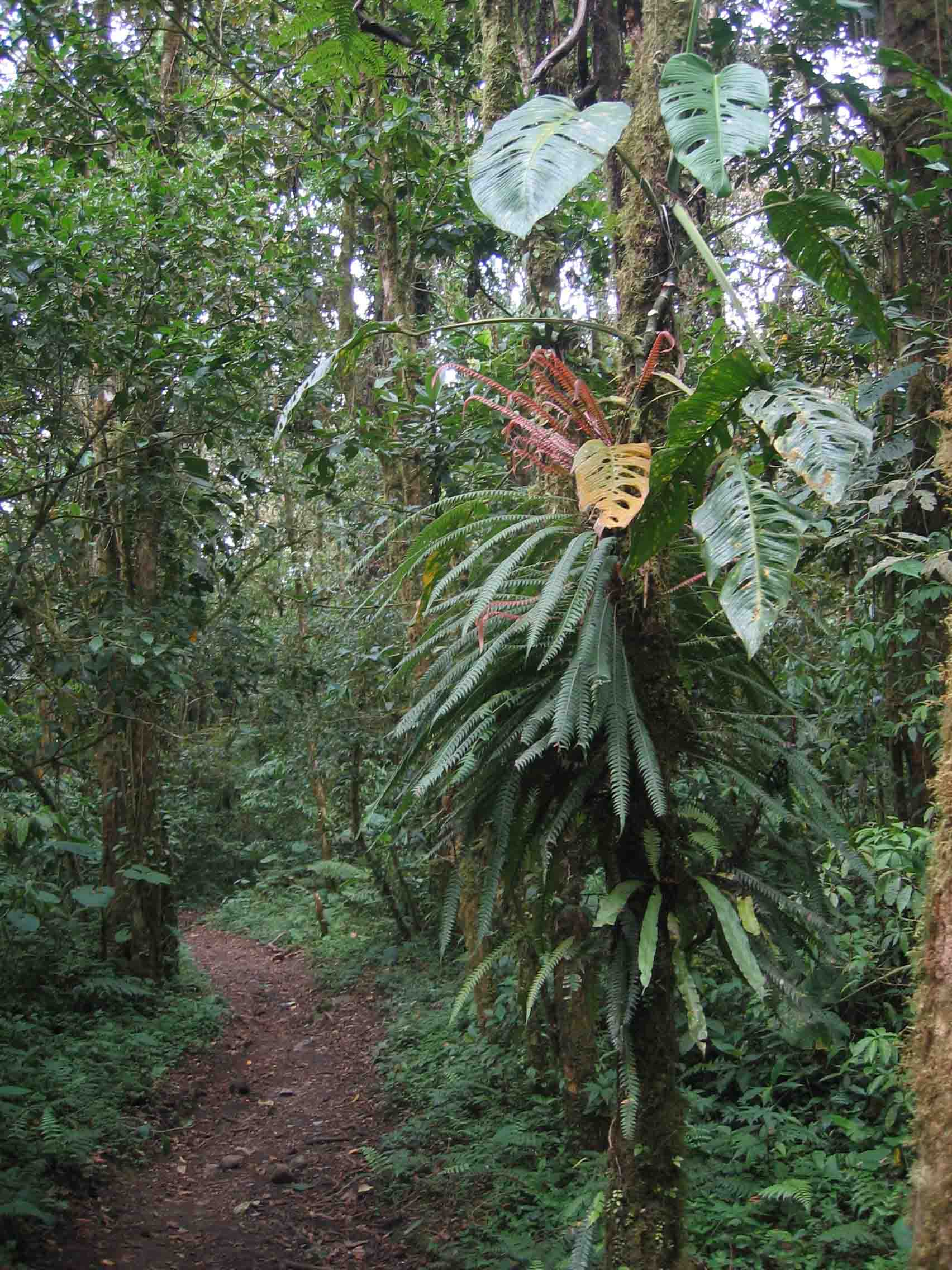 Photograph by Dirk van der Made (User:DirkvdM - for more photos see user:DirkvdM/Photographs). A jungle trail in Panamá, 12 April 2004. Probably near Boquete, at the edge of the Parque International La Ammistad.